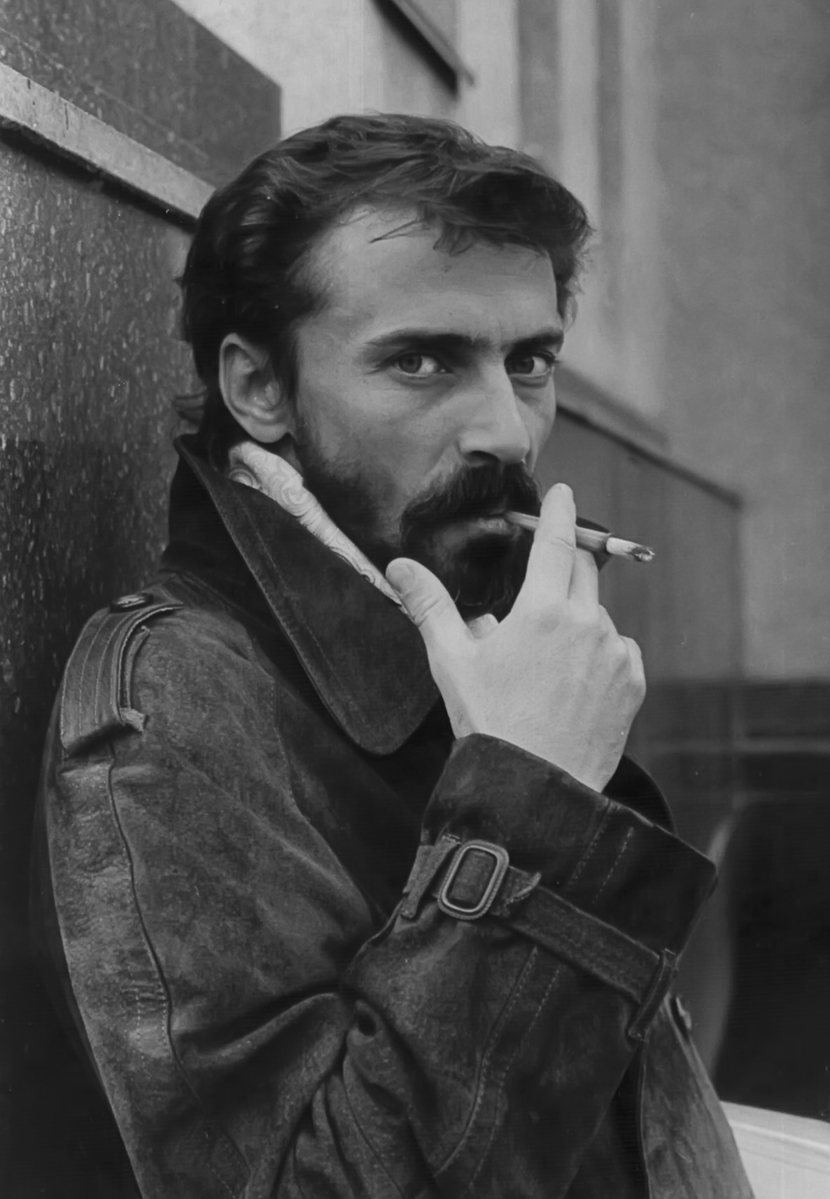 Oleh Mosiychuk